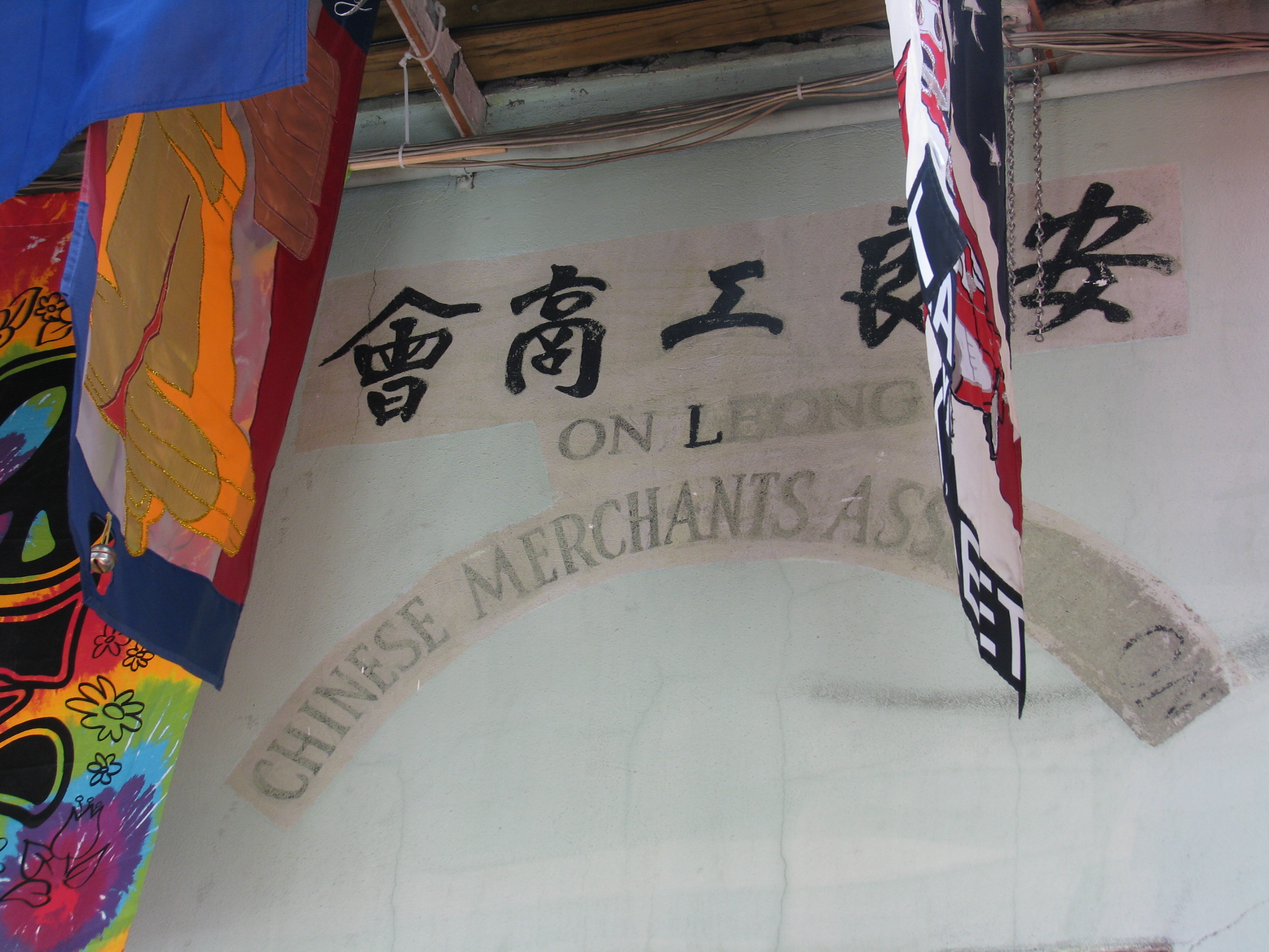 安良工商會 Former On Leong Merchant Association Building, 530 Bourbon Street, New Orleans, Louisiana